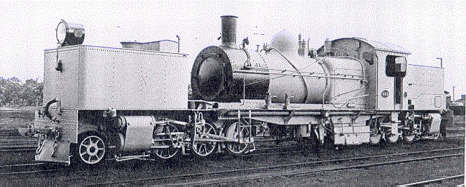 Midland Railway Workshops works photo of Western Australian Government Railways MSA class Garratt locomotive no MSA468.